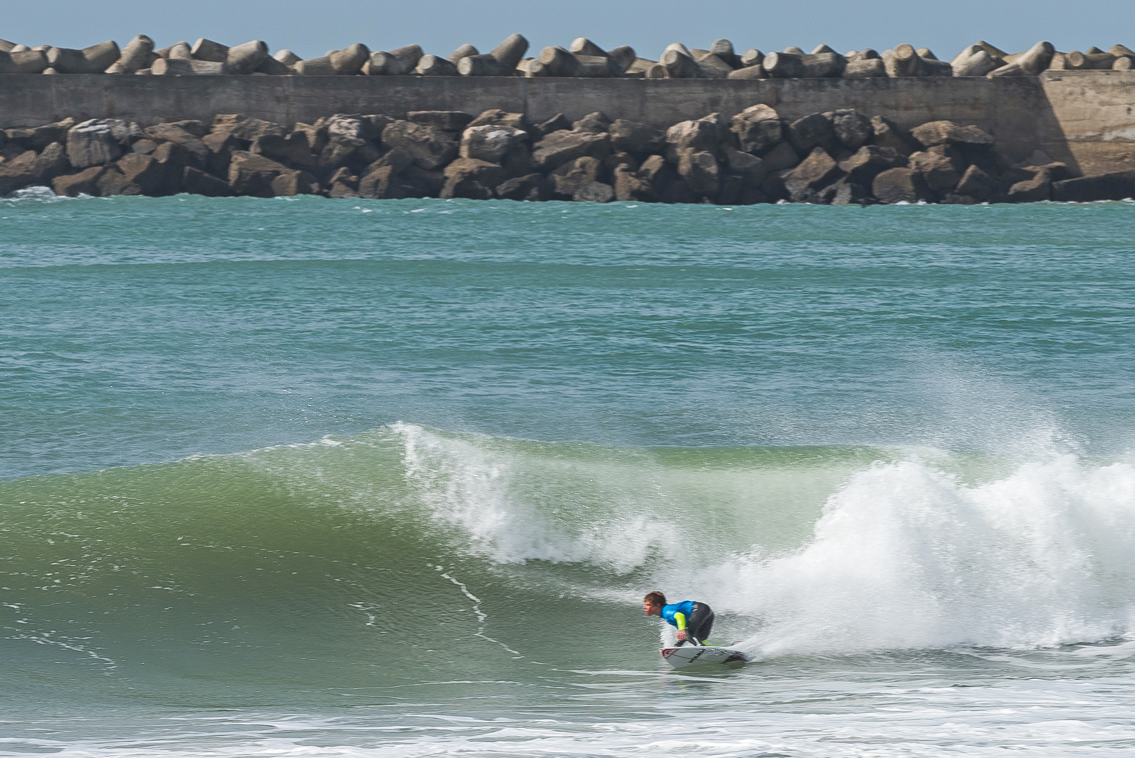 Peniche Portugal February 2015